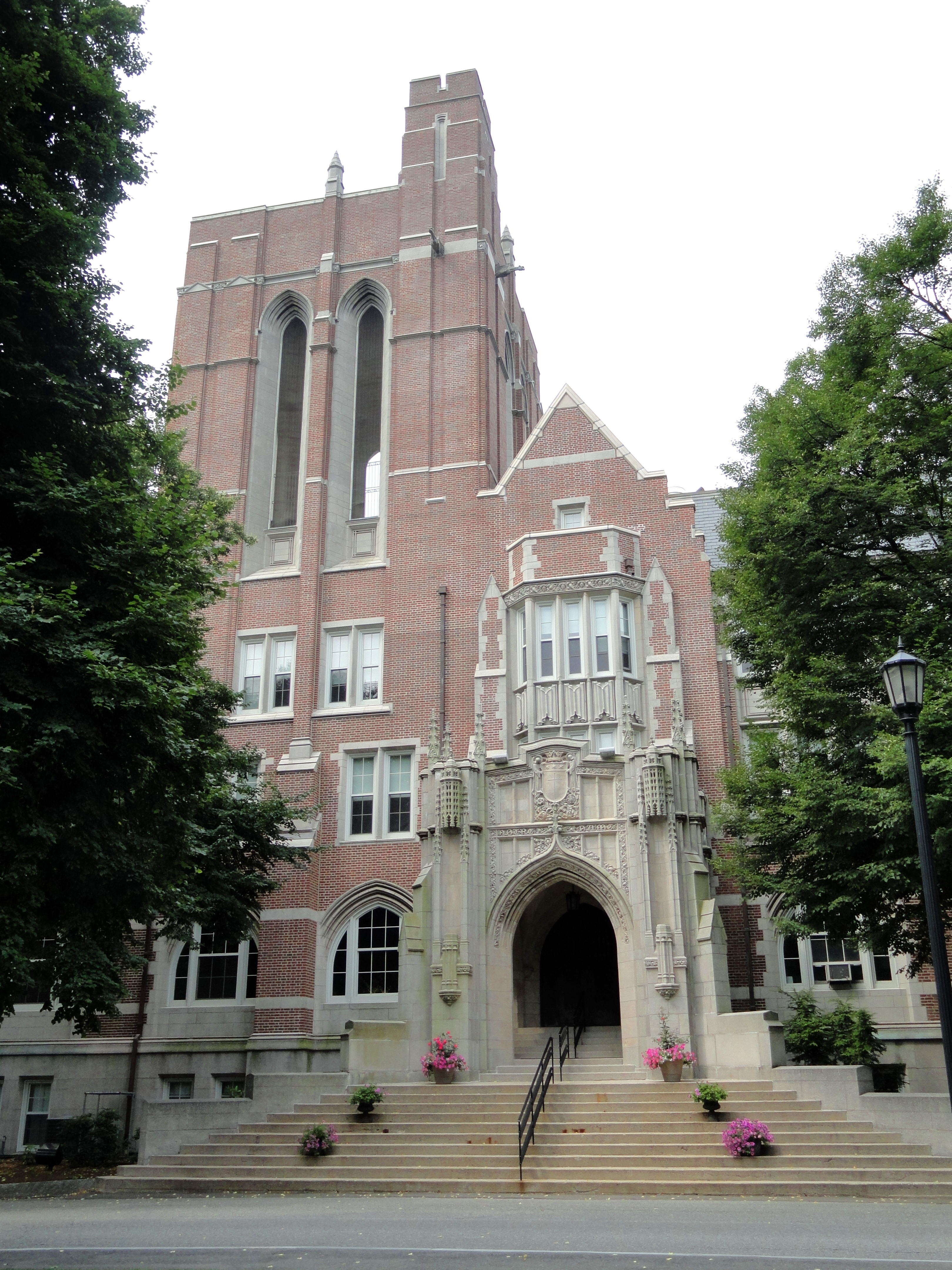 Emmanuel College, 400 The Fenway, Boston, Massachusetts, USA.